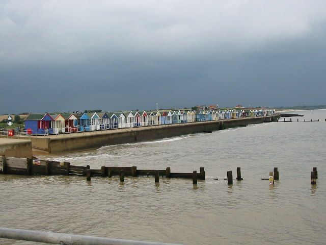 Beach huts from Pier.